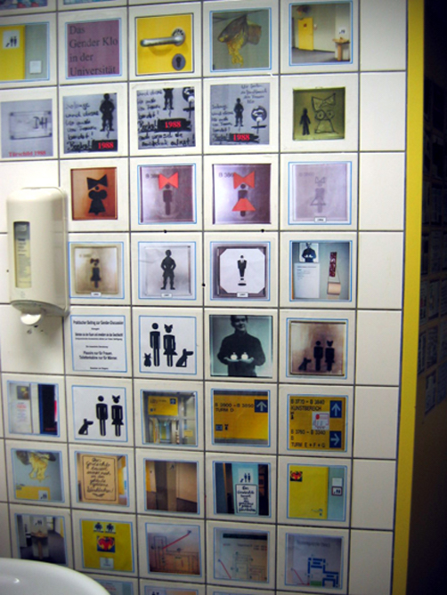 The GenderKlo is Art in Public Space and located at Universität Bremen. The instigator of the GenderKlo is German artist Yolanda Feindura.